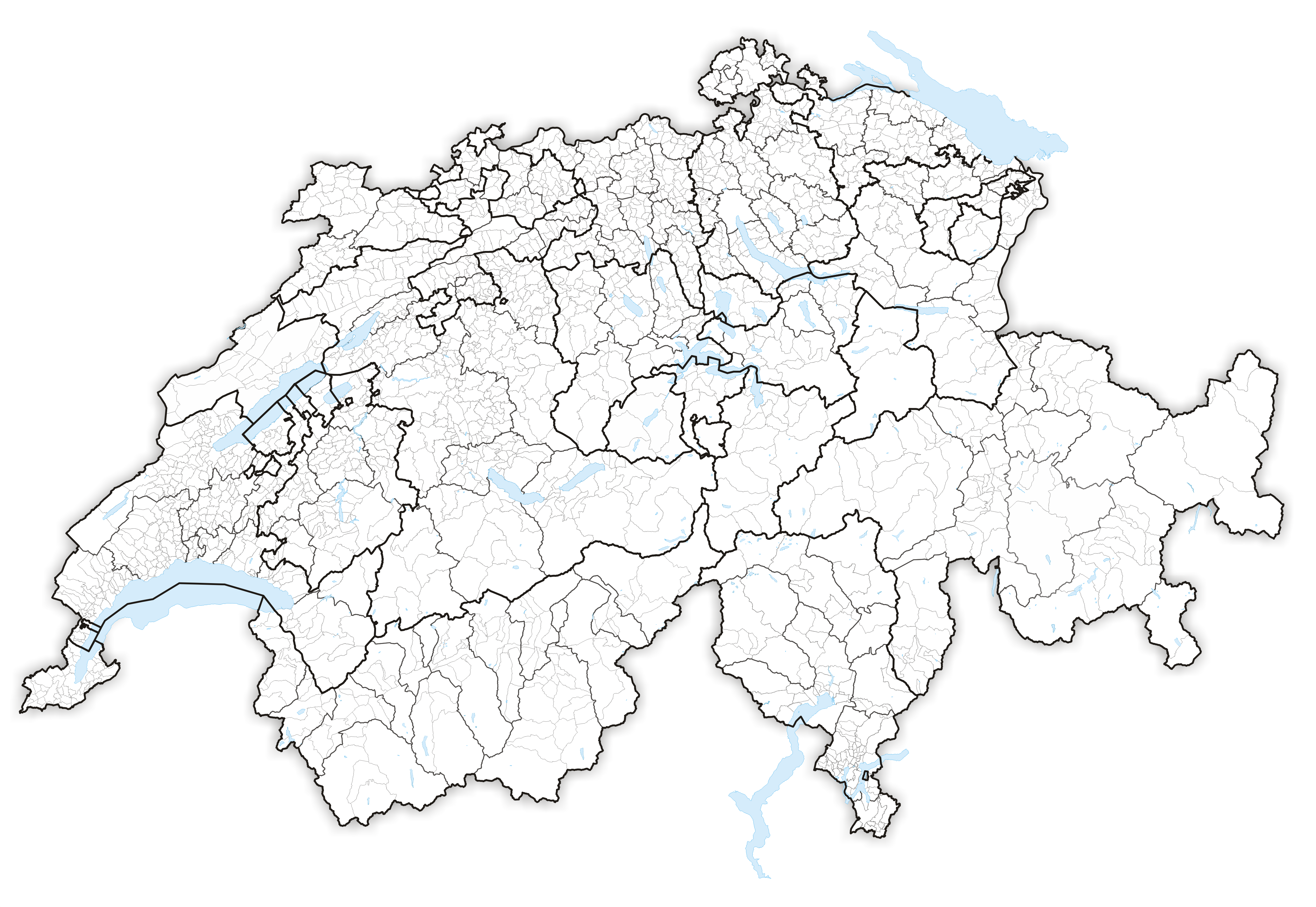 Municipalities in Switzerland